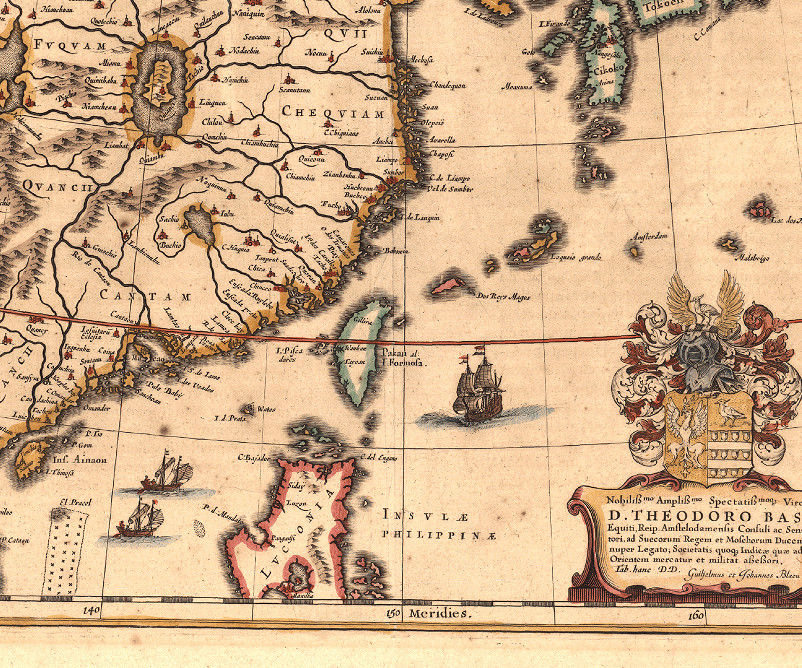 Independent from China